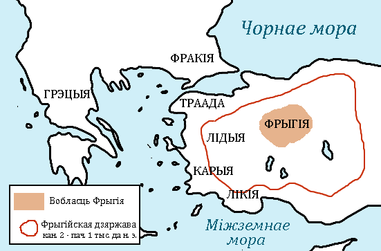 Map of Phrygia in Belarusian